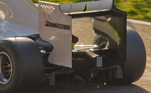 The controversial rear end of the Brawn BGP 001 1/320s - F/13 - 200mm - ISO400